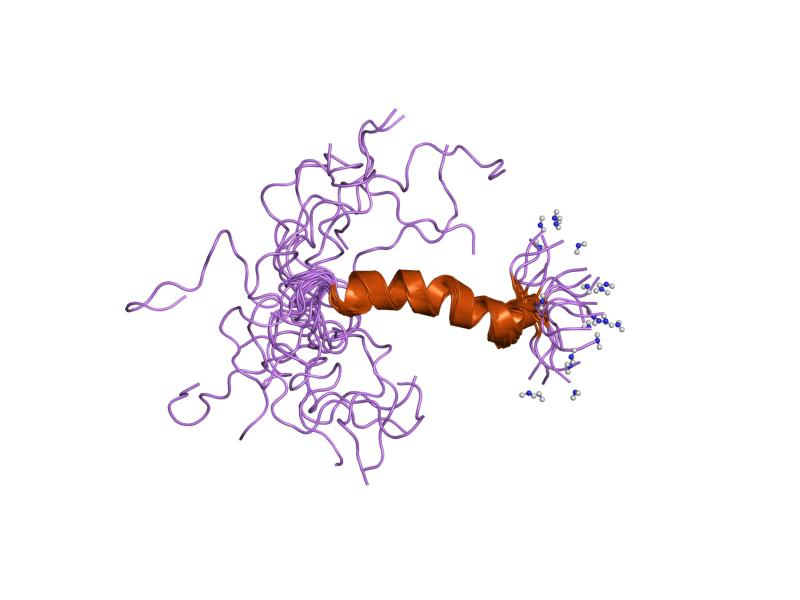 Cartoon representation of the molecular structure of protein registered with 1k8v code.